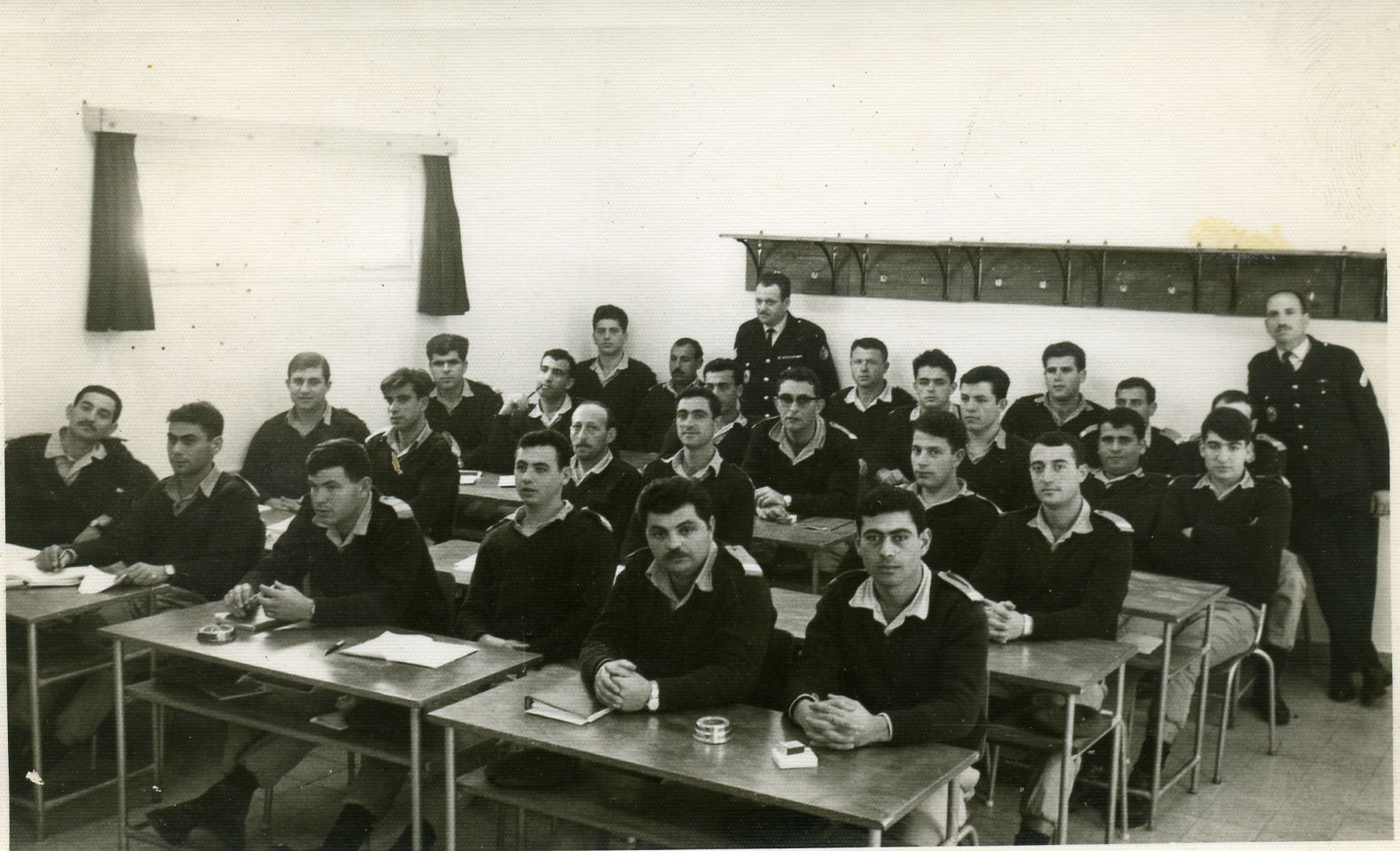 Israeli policemen in theoretical training